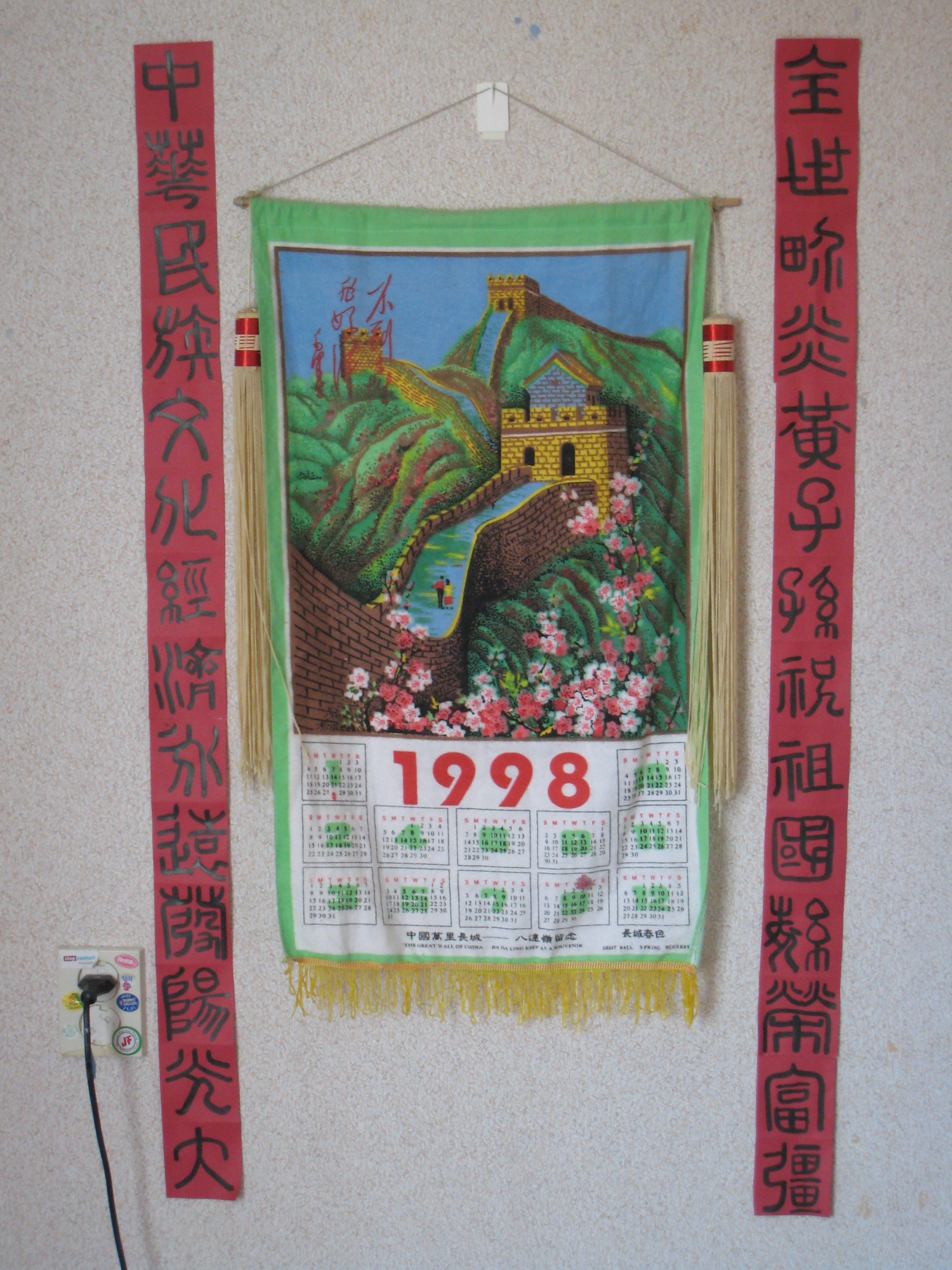 duilian